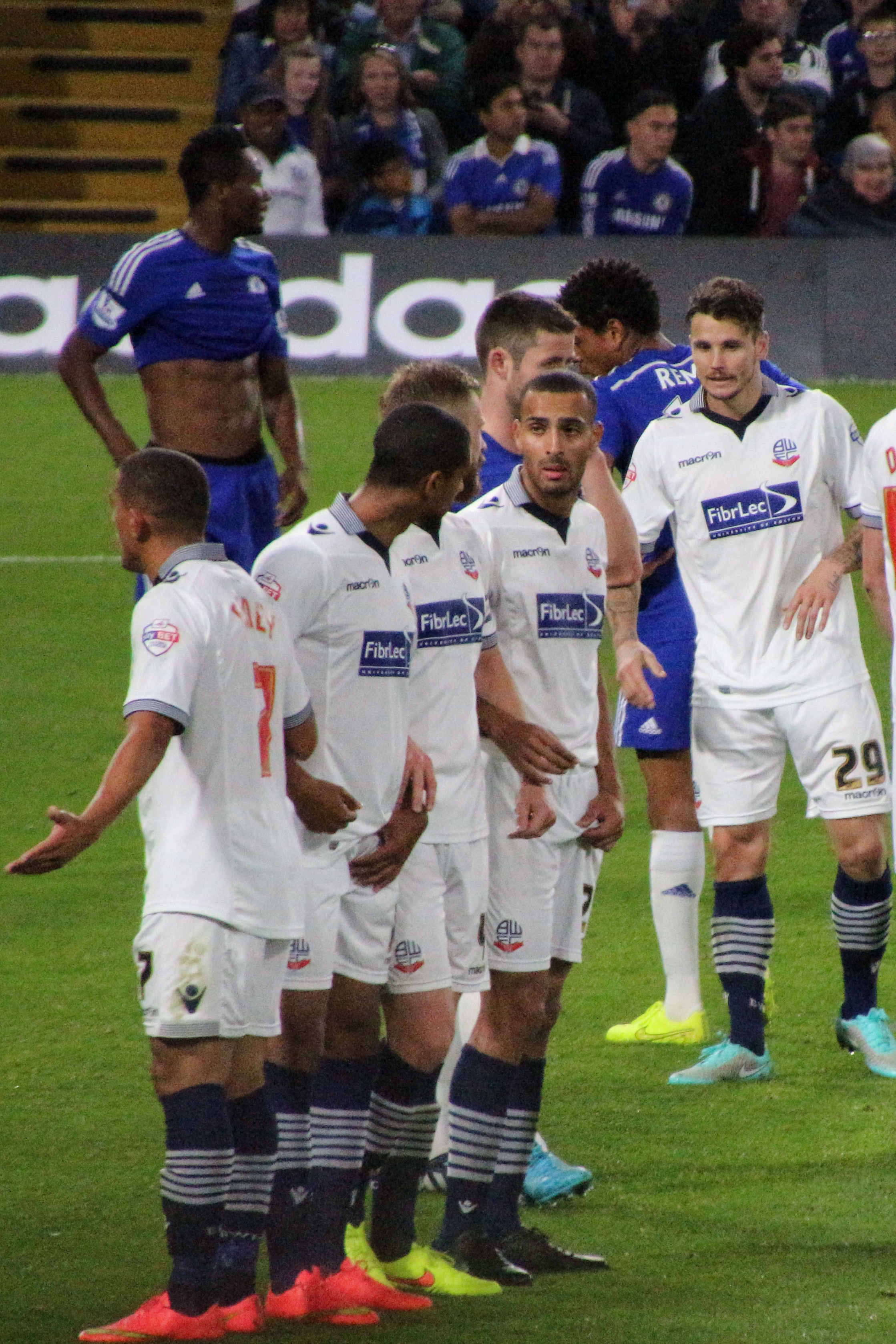 Chelsea 2 Bolton Wanderers 1 Chelsea progress to the next round of the Capital One cup